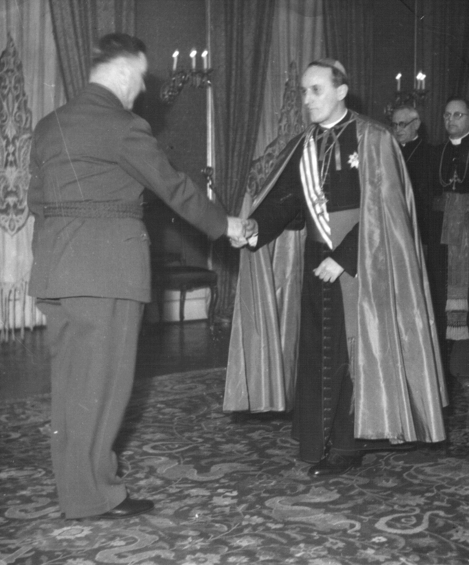 Ante Pavelić and Alojzije Stepinac